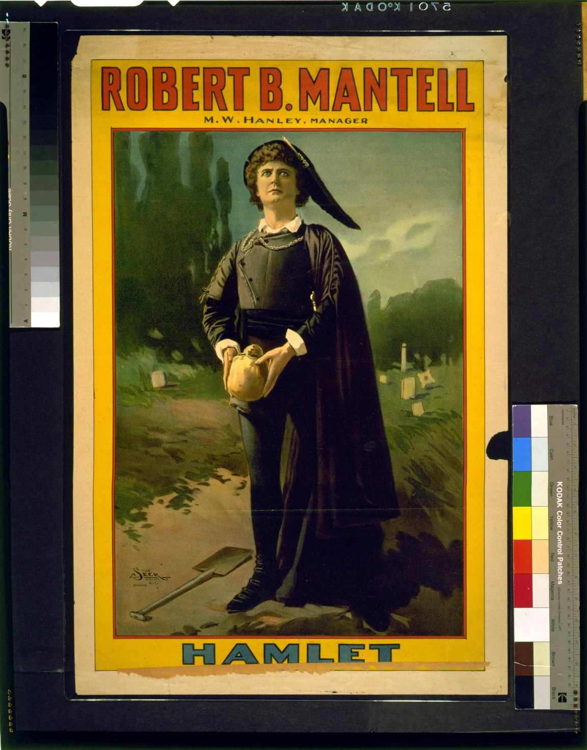 Title: Robert B. Mantell. Hamlet Abstract/medium: 1 print : color lithograph ; sheet 77 x 51 cm. (poster format)